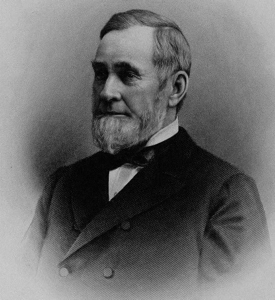 Portrait of New York state senator George B. Bradley